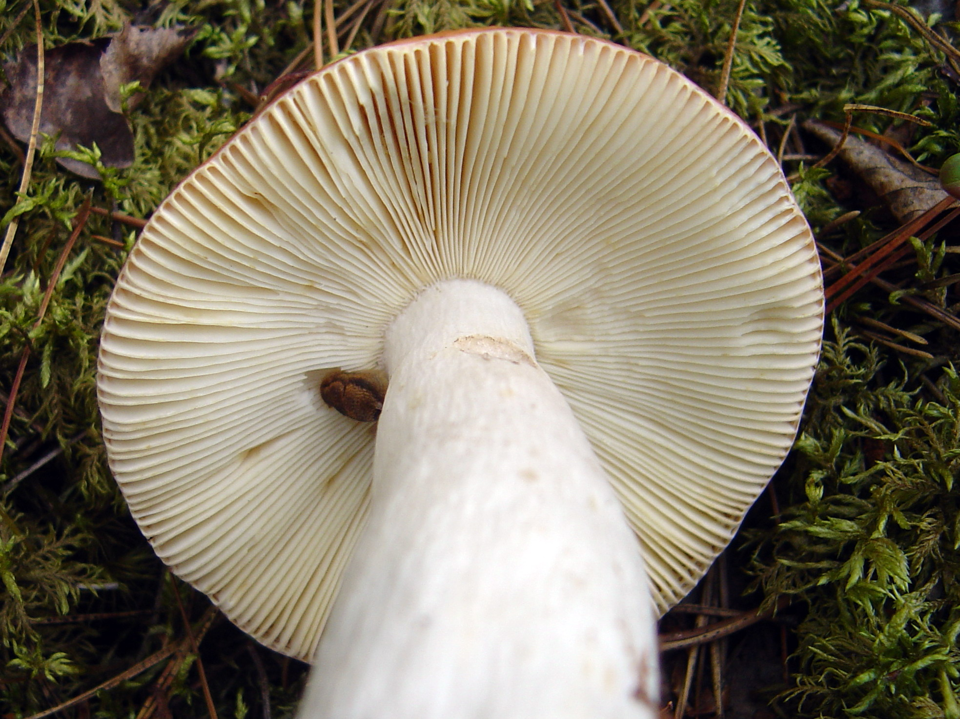 Russula decolorans Fr. Image location: Ugut, Khanty-Mansi Autonomous Okrug—Yugra, Russia in the pine wood under Pinus sylvestris, P. sibirica Recognized by sight For more information about this, see the observation page at Mushroom Observer.